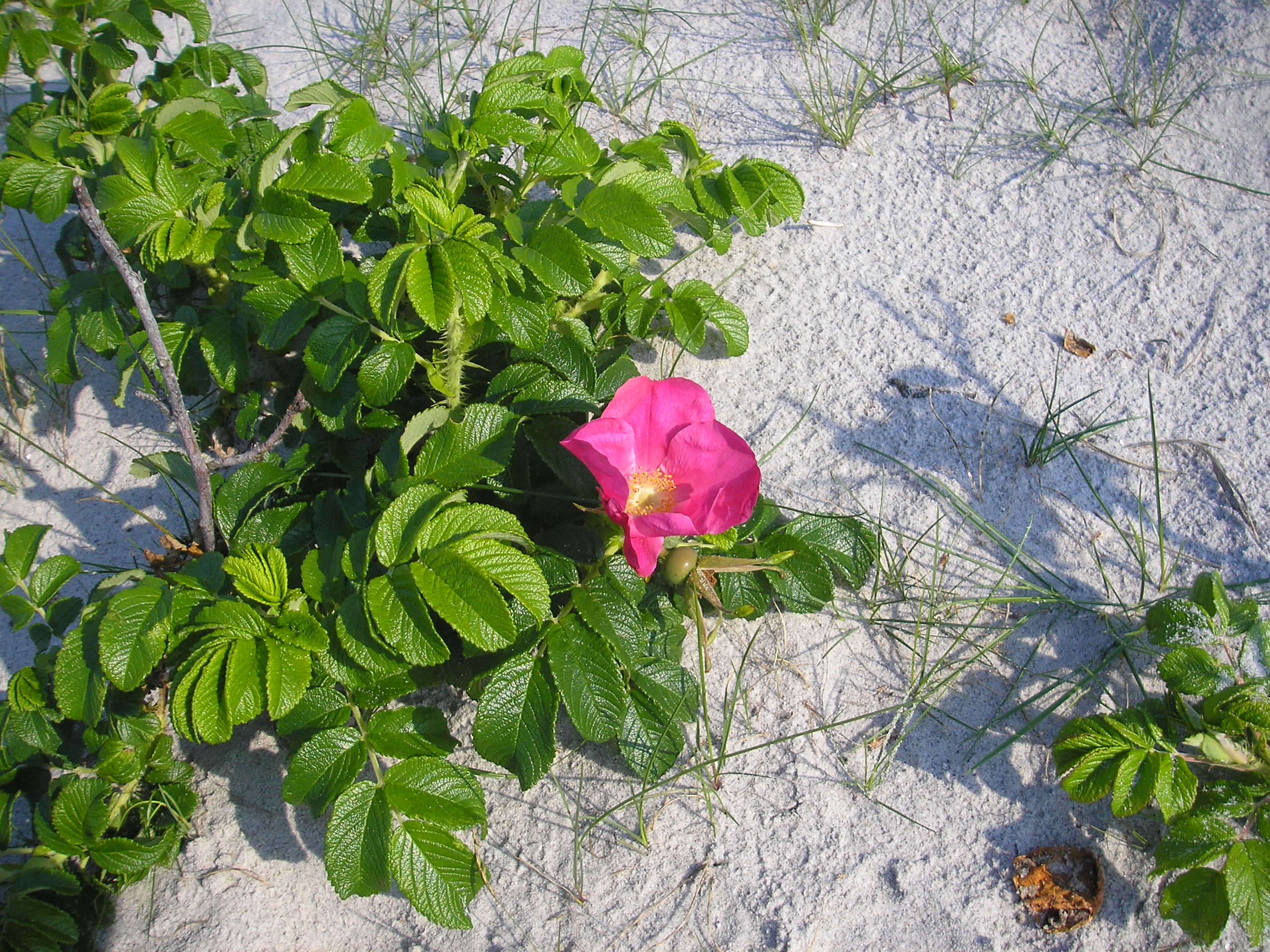 Flower at the beach of Heiligendamm at the Baltic Sea coast.